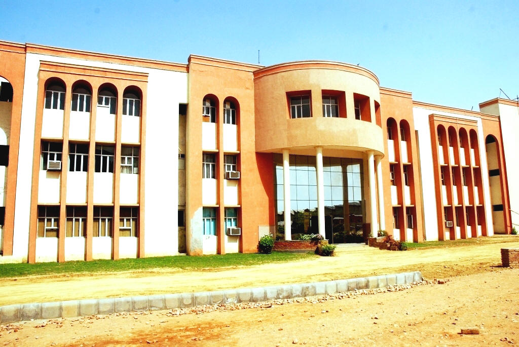 hit building new picture